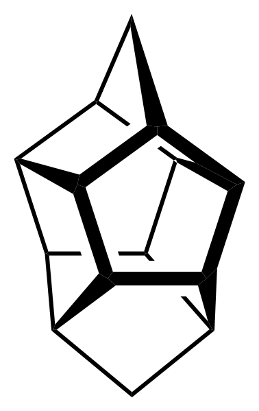 Geometric structure of the pentasil unit